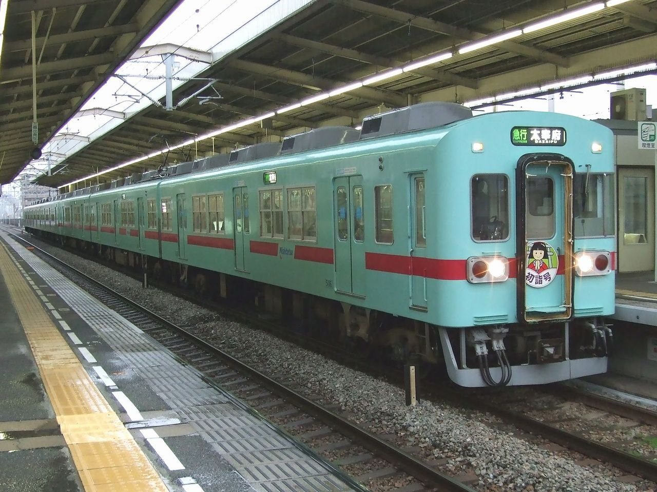 Nishi Nippon Railroad 5000 series EMU for the “Hatsumode-go” express train at Ohashi Station, Minami-ku, Fukuoka, Fukuoka, Japan